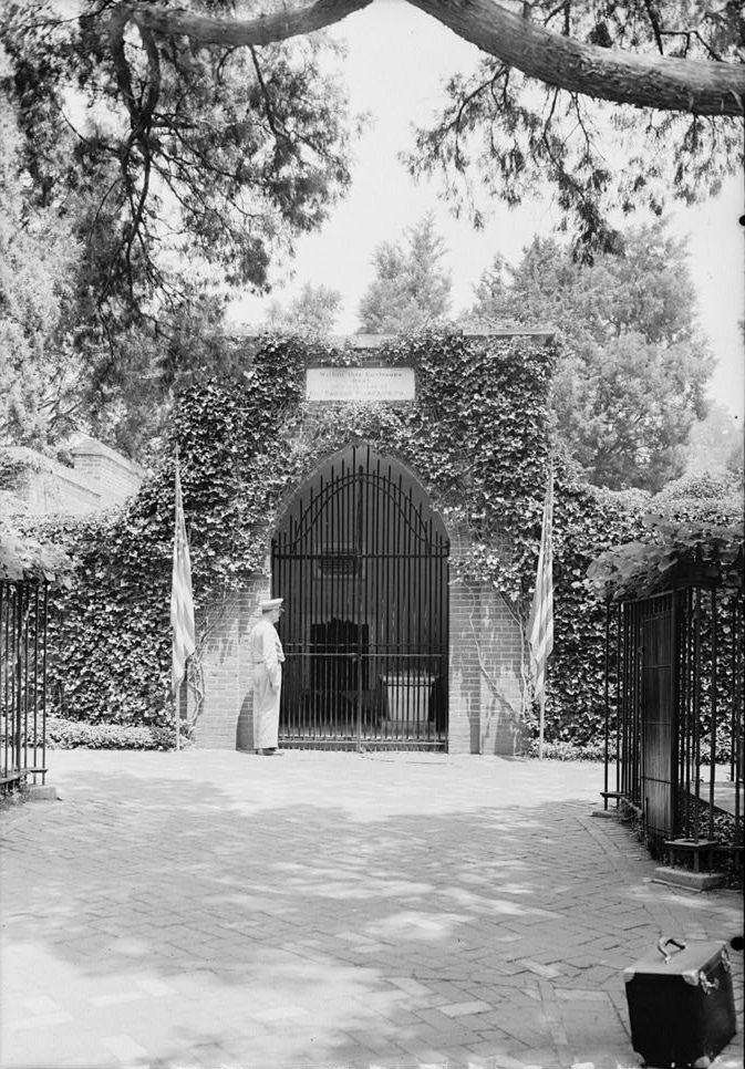 The tomb of George Washington, Mount Vernon, Mount Vernon Memorial Highway, Mount Vernon, Fairfax County, Virginia. Historic American Buildings Survey, The Library of Congress, Washington, D. C.